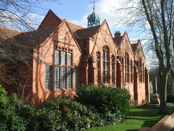 Castle High School The former Dudley Grammar School is now a voluntary aided High School and Visual Arts College. These buildings date from 1898.